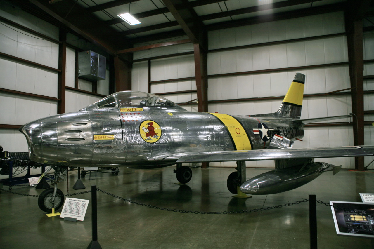 First introduced in 1951, the F-86F was the ultimate day-fighter variant of the Sabre. From the original Sabre design of the late 1940s, the F-86 evolved into the only production single- seat, all-weather jet interceptor, nuclear capable fighter-bomber and carrier-based fleet interceptor, for the Navy.